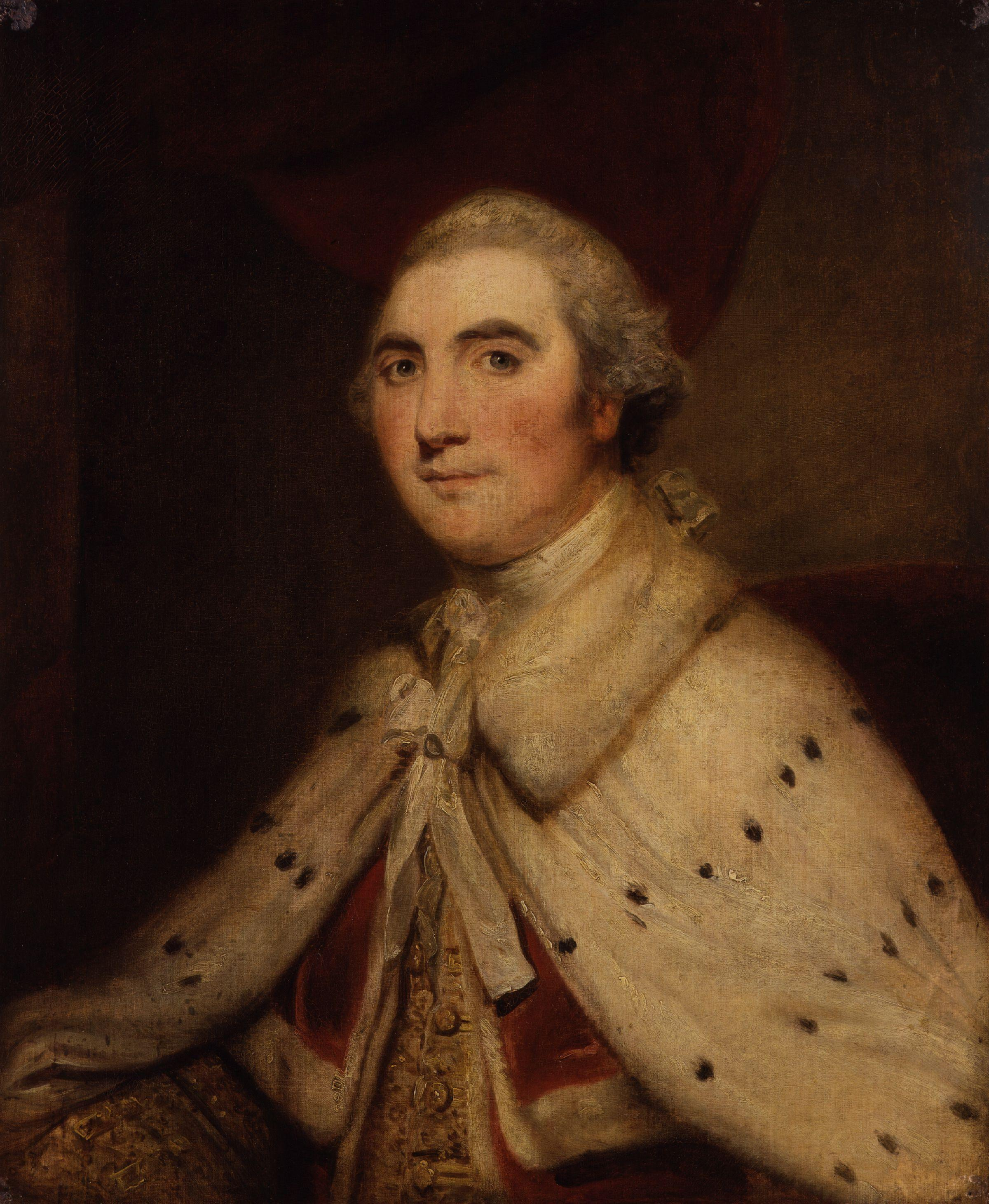 All images in this batch have been confirmed as author died before 1939 according to the official death date listed by the NPG.